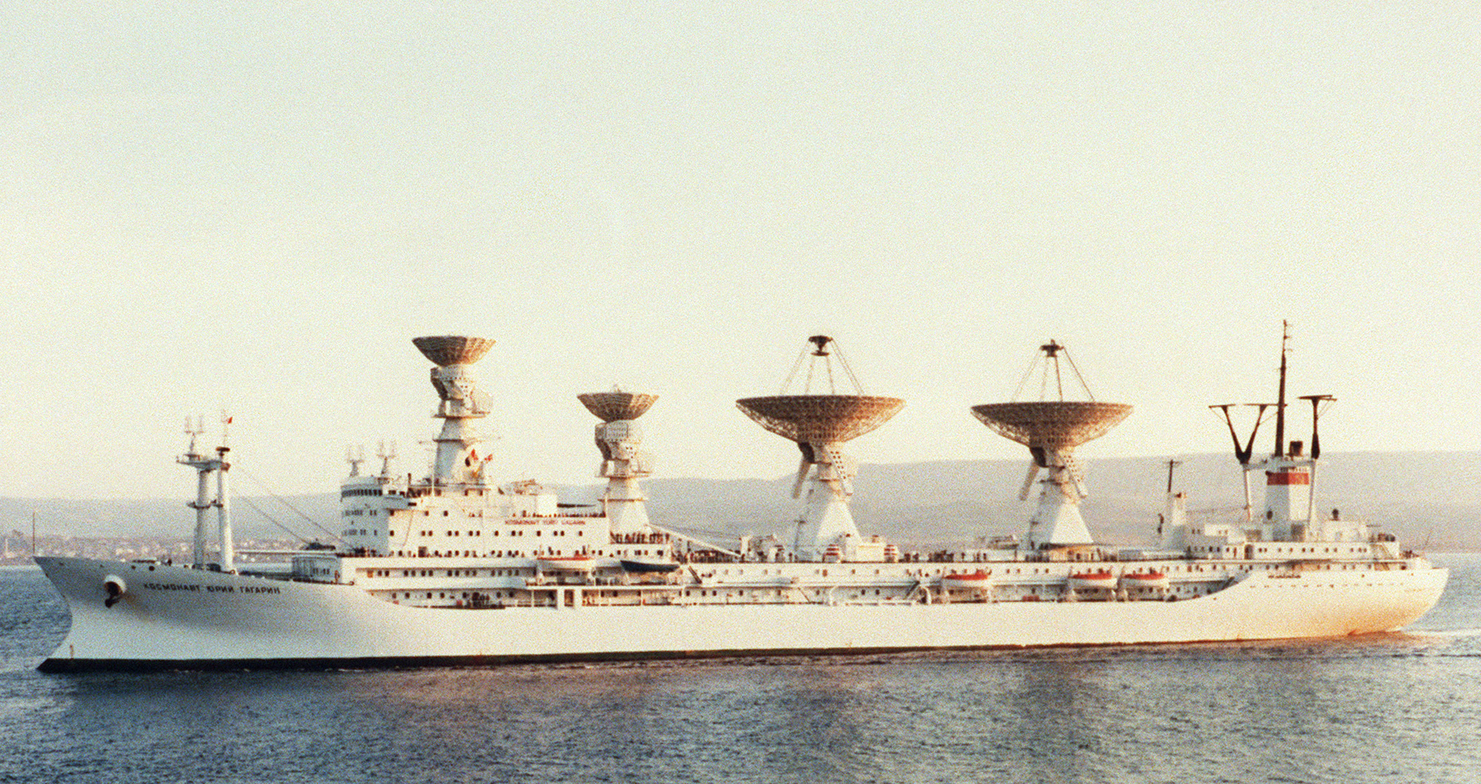 A port view of the Soviet space control-monitoring ship KOSMONAVT YURIY GAGARIN underway.